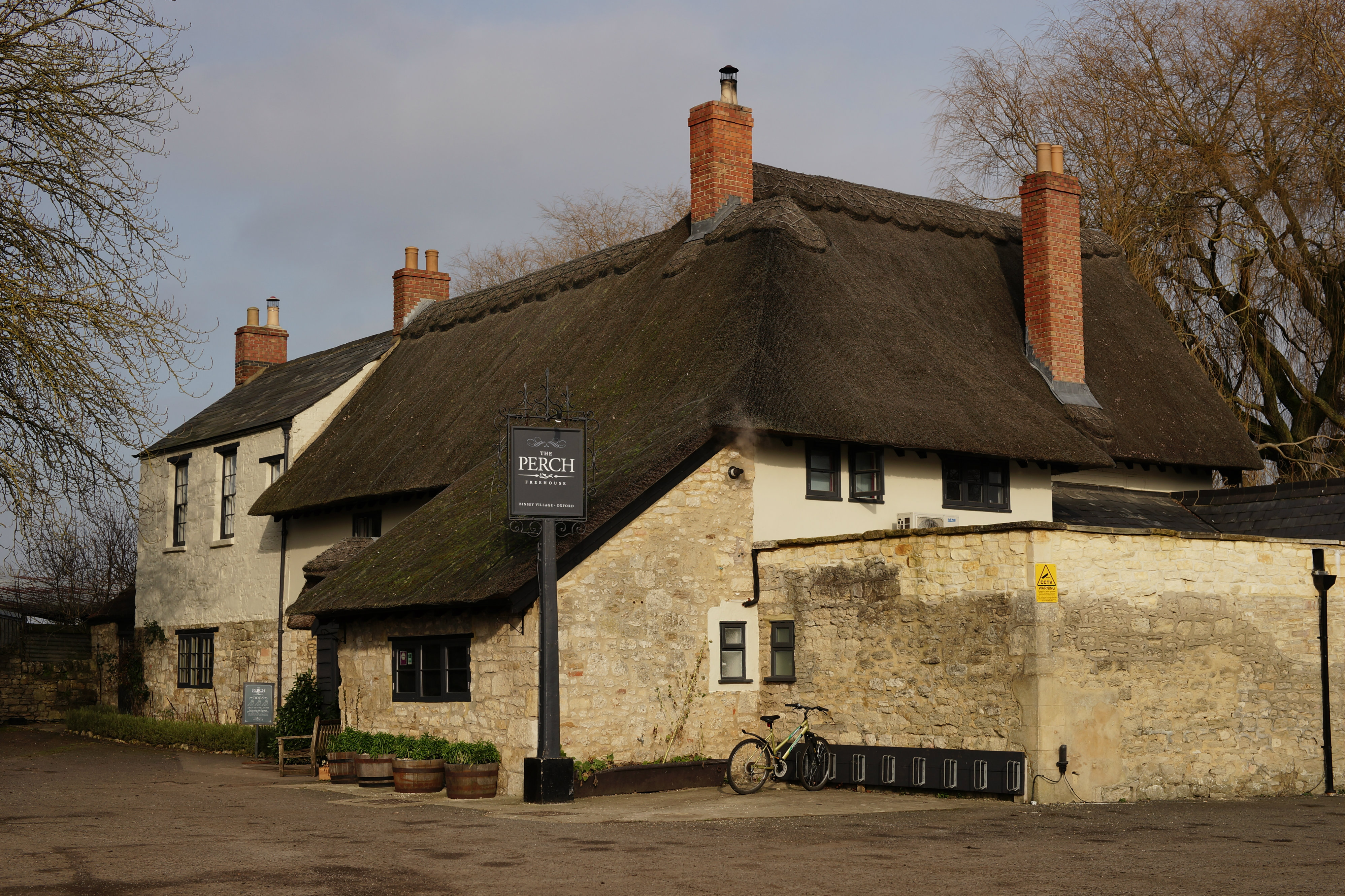 The Perch pub, Binsey, Oxfordshire, seen from the south. A 17th-century Grade II listed building